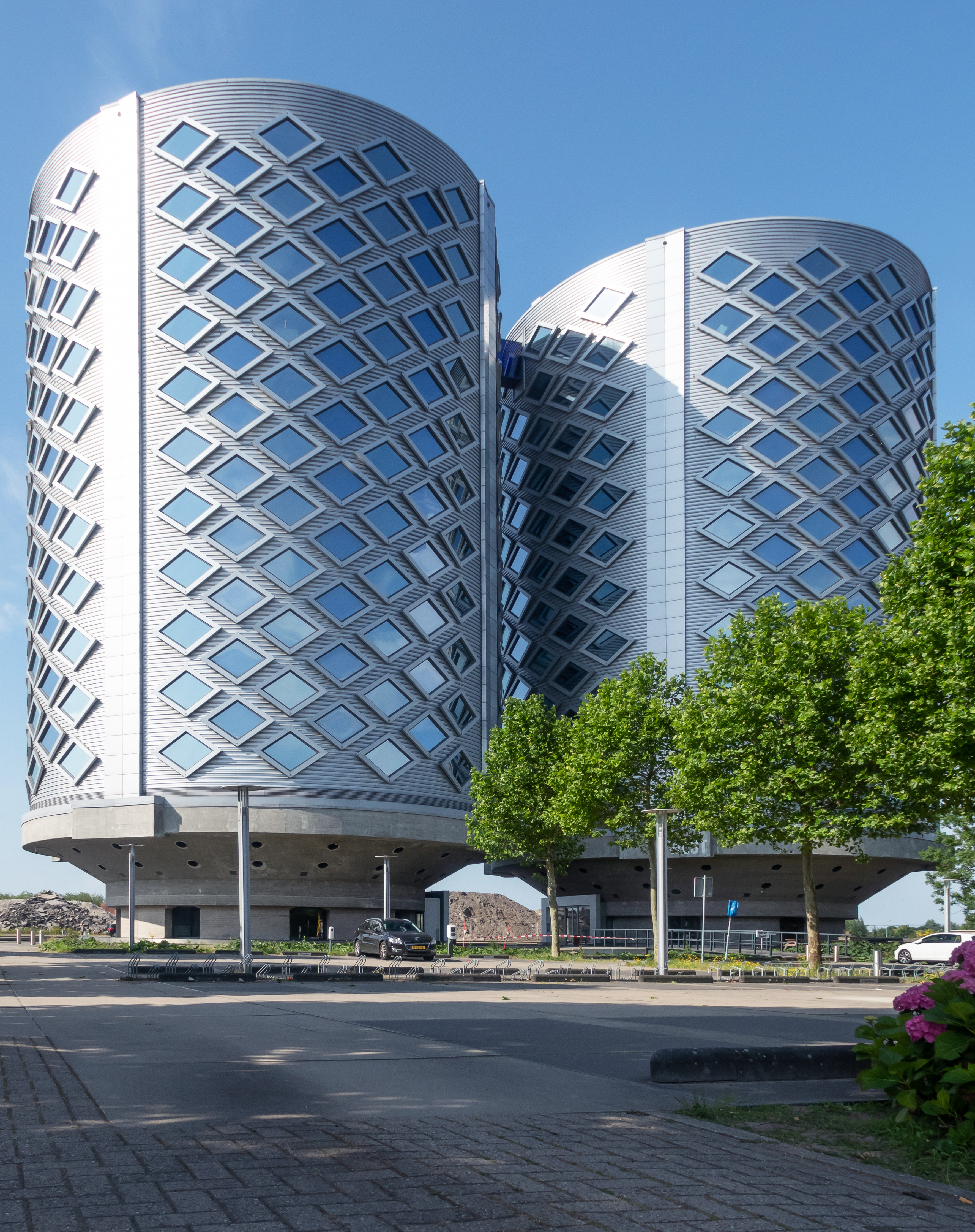 Halfweg, SugarCity industrial confention center